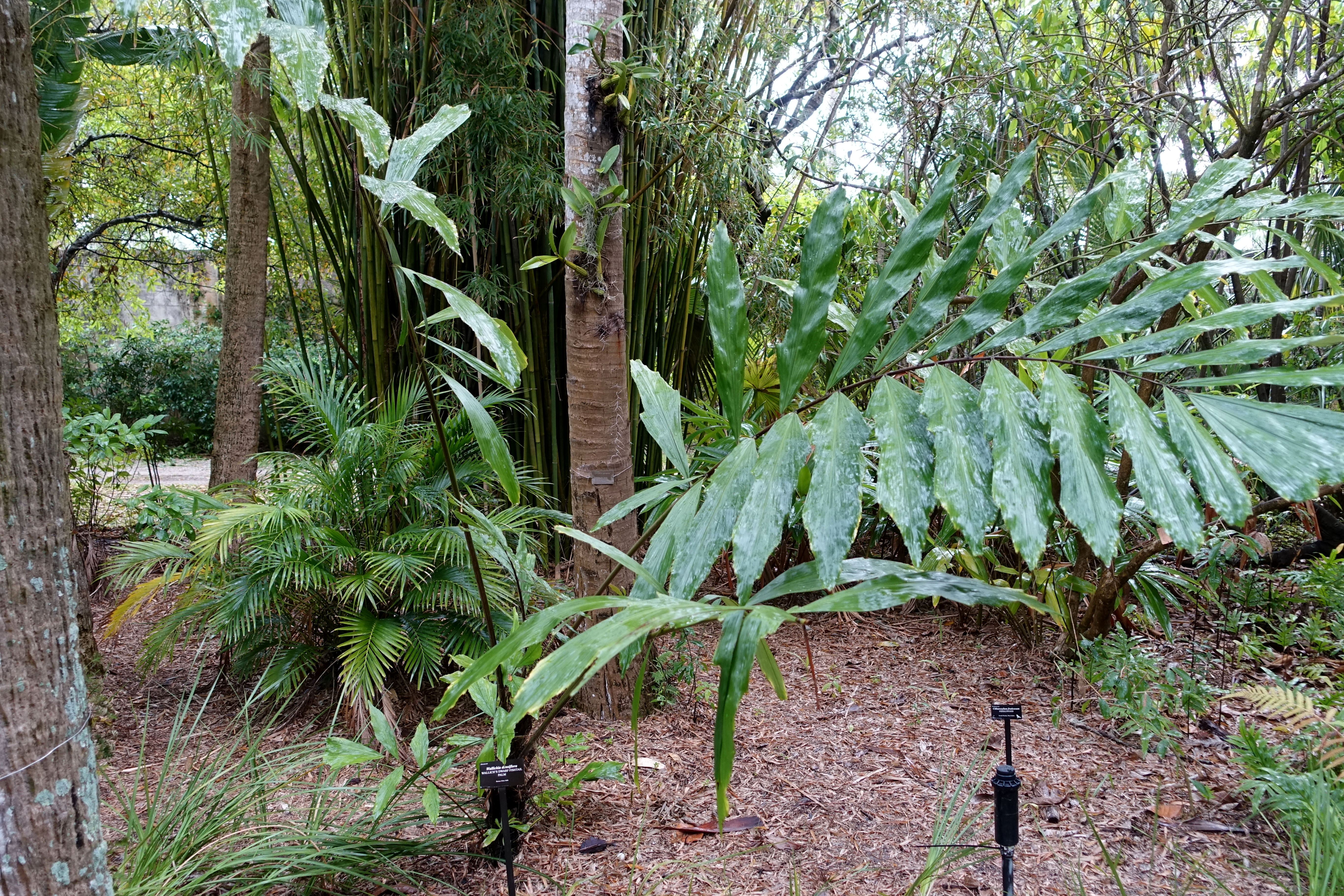 Botanical specimen in McKee Botanical Garden - Vero Beach, Florida, USA.